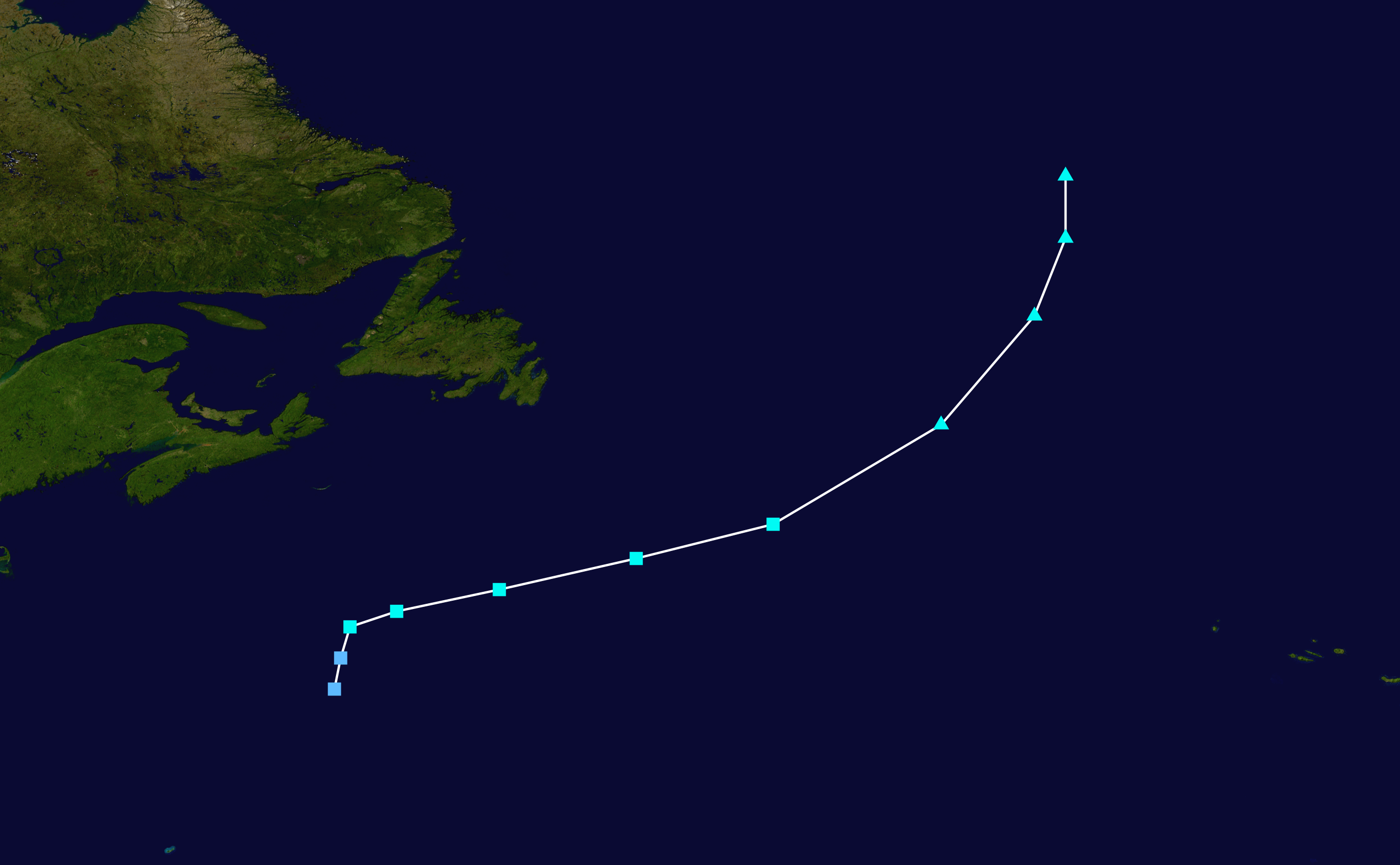 Subtropical Storm Charlie (1972) track. Uses the color scheme from the Saffir-Simpson Hurricane Scale.